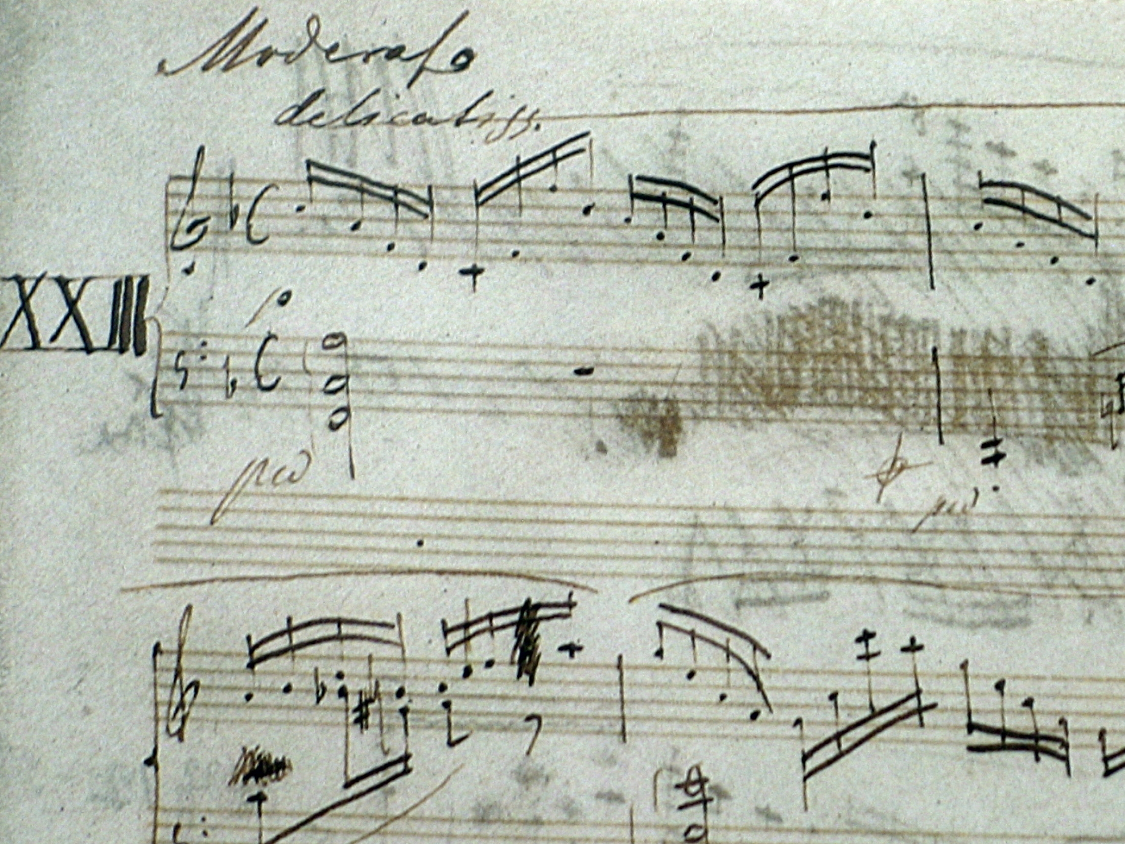 Prélude op. 29 Nr 23 F Chopins original handrwiting